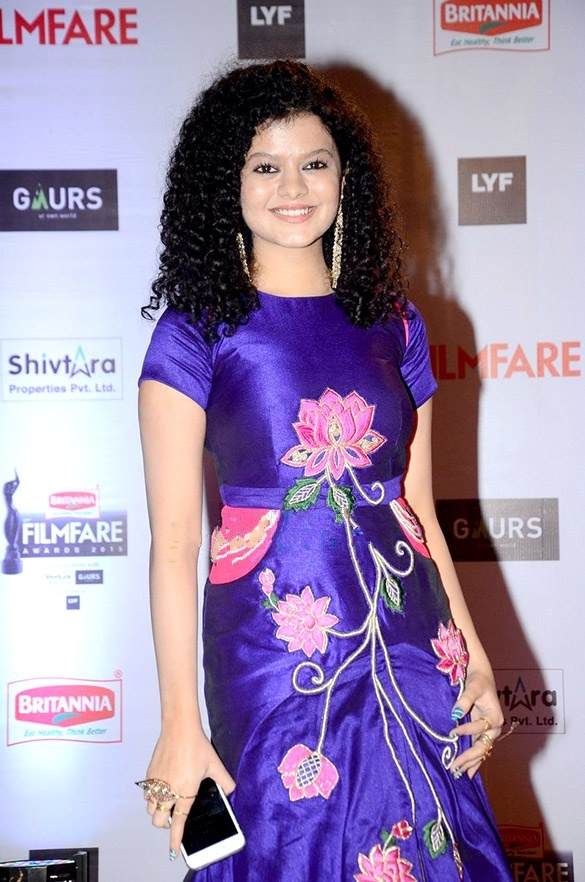 Palak Muchal at filmfare